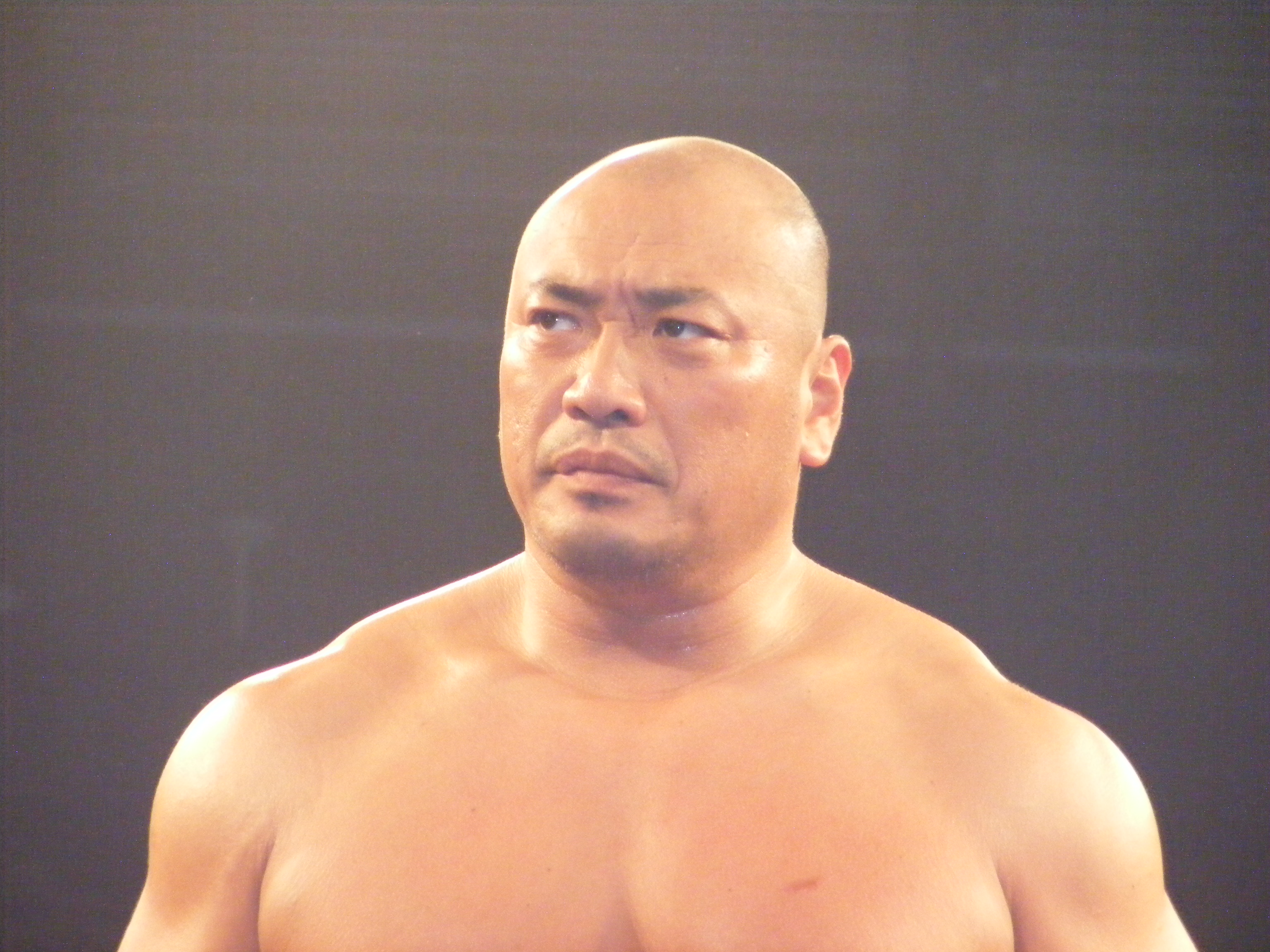 Professional wrestler Jinsei Shinzaki at Chikara King of Trios 2011.